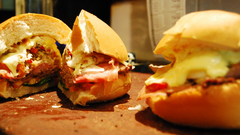 I took the picture in a Chivito restaurant called Marcos. I took the pictures with the cooperation of the staff, who let me in the kitchen to take the pictures.